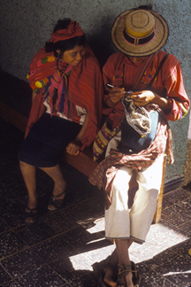 This Maya man from San Juan Atitan, Guatemala, is tapestry crocheting a shoulder bag with single crochet stitches, inserting the hook under both top loops.